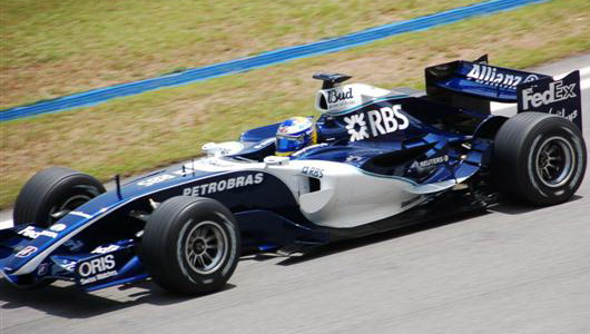 Nico Rosberg in his Williams FW28 at 2006 Malaysian Grand Prix.